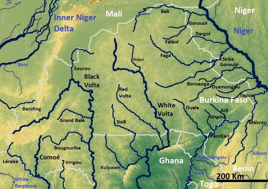 Burkina Faso with its Rivers OSM